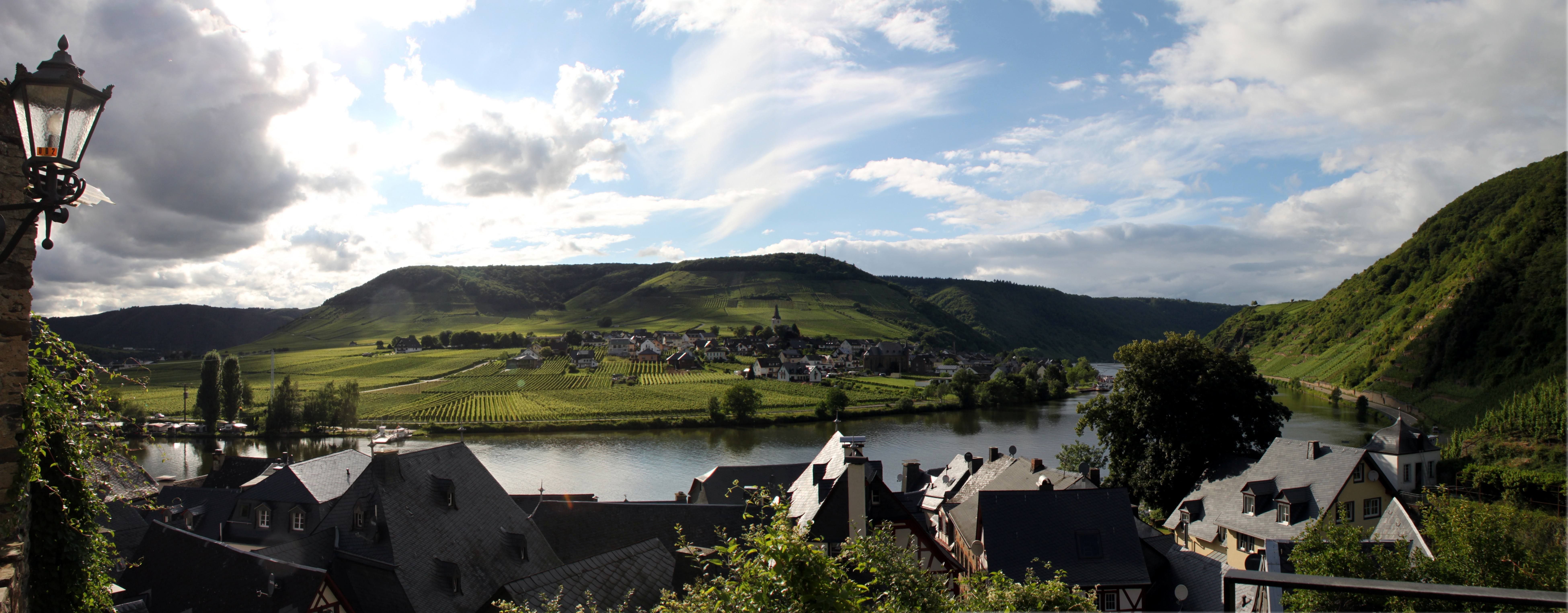 Ellenz behind the river Mosel as seen from Beilstein (Note: The picture is composition of two separate photos)